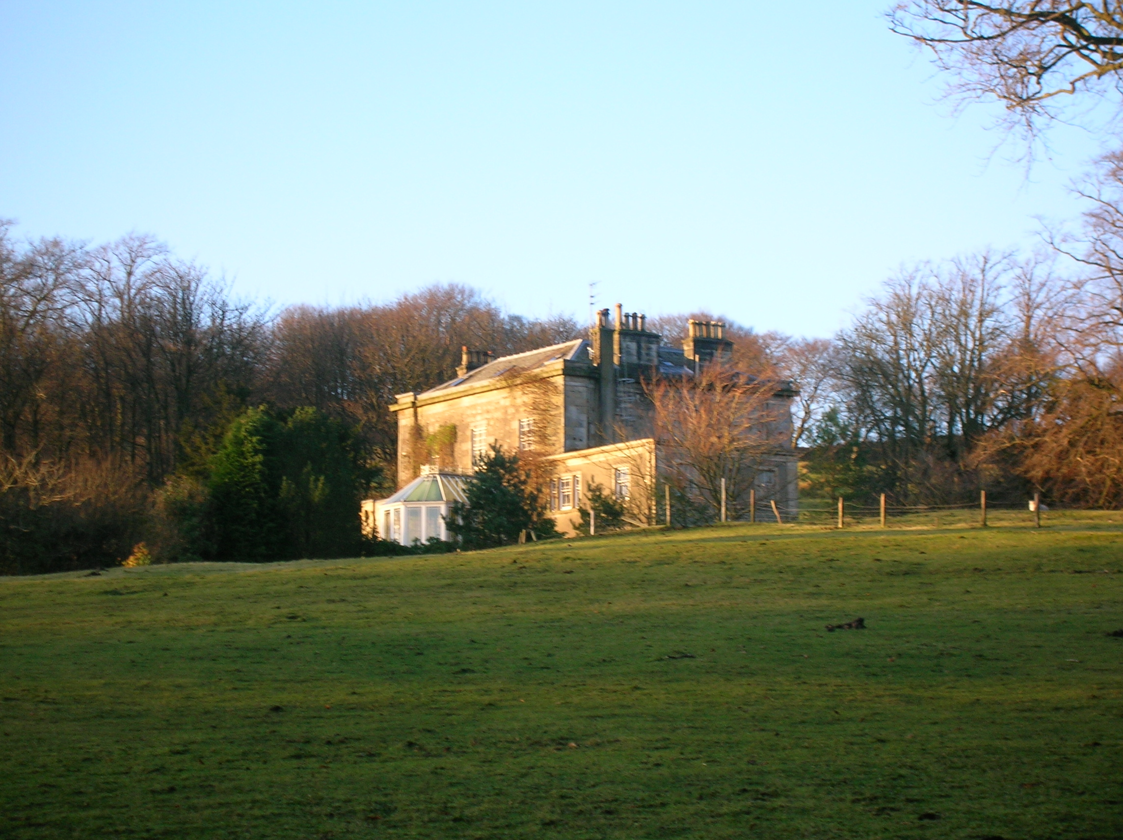 Ladyland House, Kilbirnie, North Ayrshire, Scotland